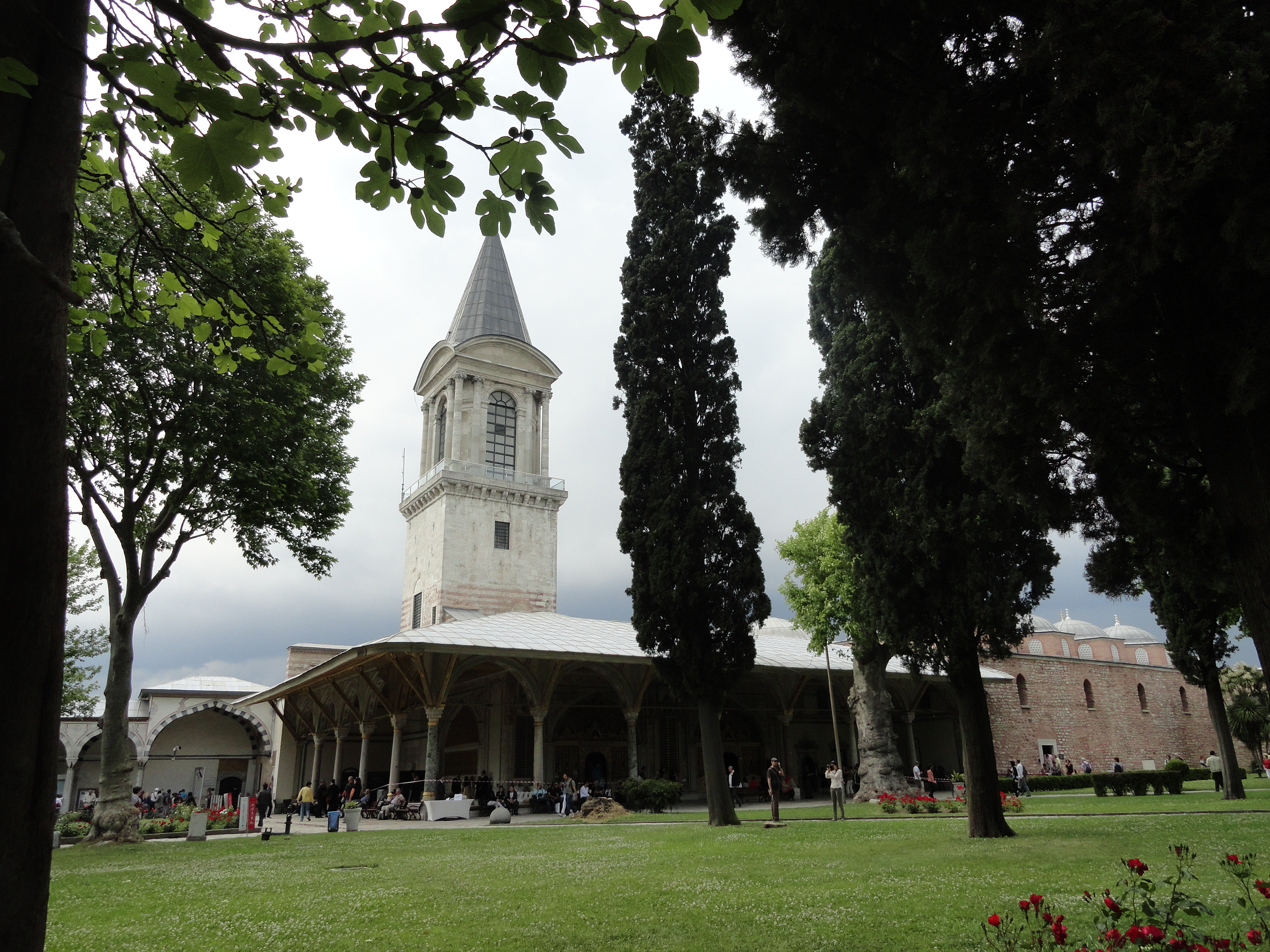 On focus is the famous Tower of Justice (Adalet Kulesi in Turkish) in the second courtyard in Topkapi Palace (Topkapi Sarayi in Turkish) in Istanbul, Turkey. It is in between the Harem and the kitchen of the palace. By the founder of